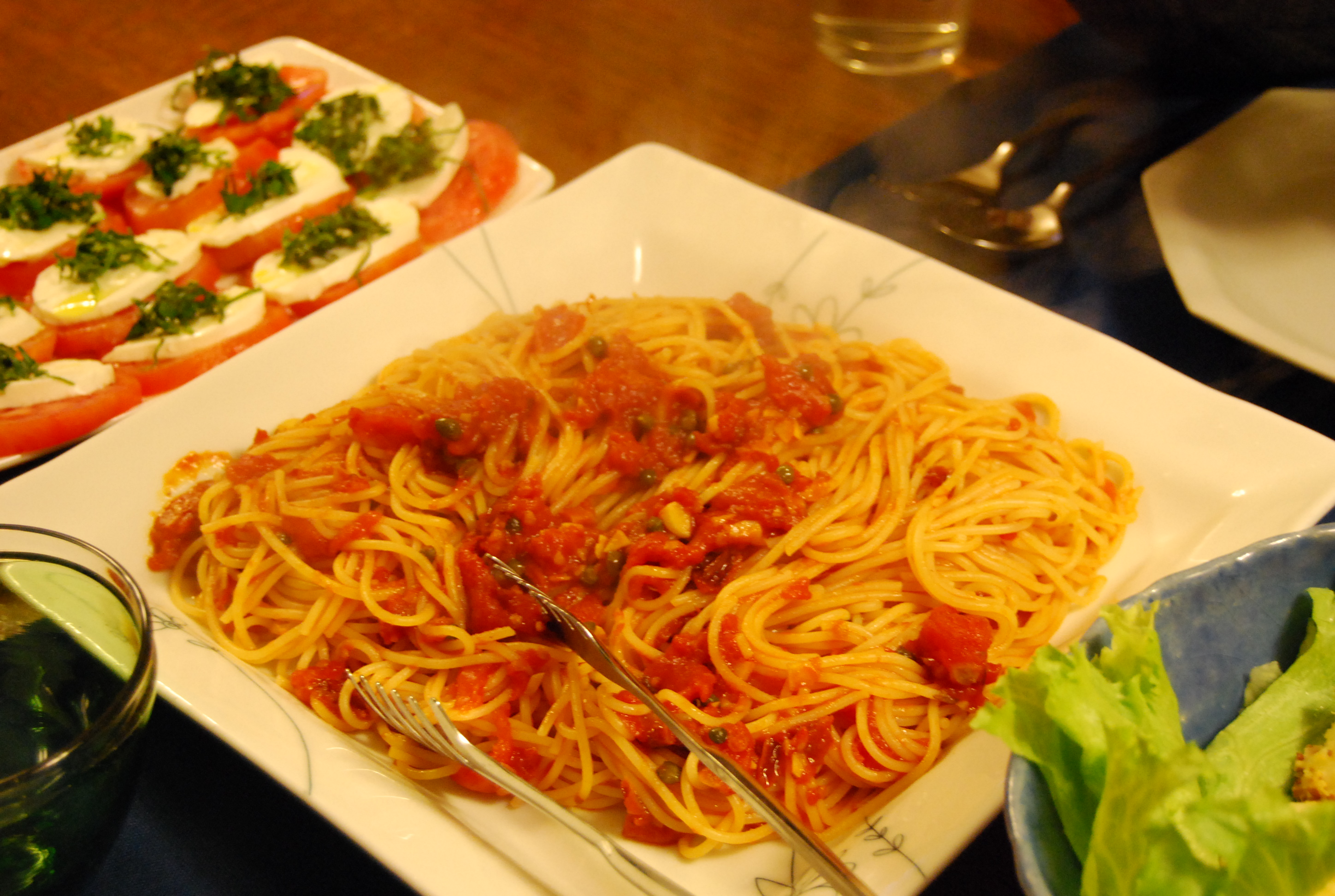 Pasta Puttanesca